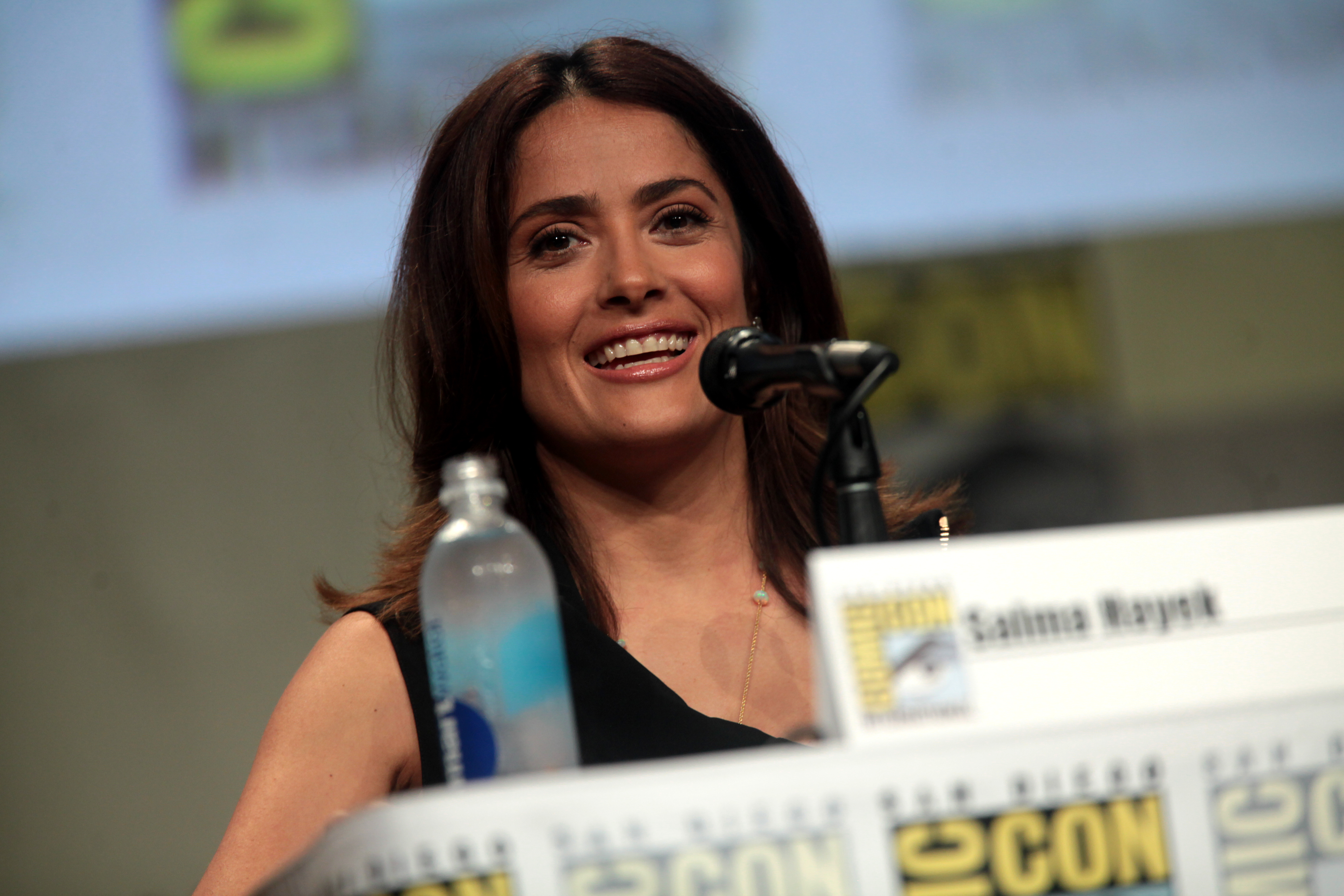 Salma Hayek speaking at the 2014 San Diego Comic Con International, for "Everly", at the San Diego Convention Center in San Diego, California.